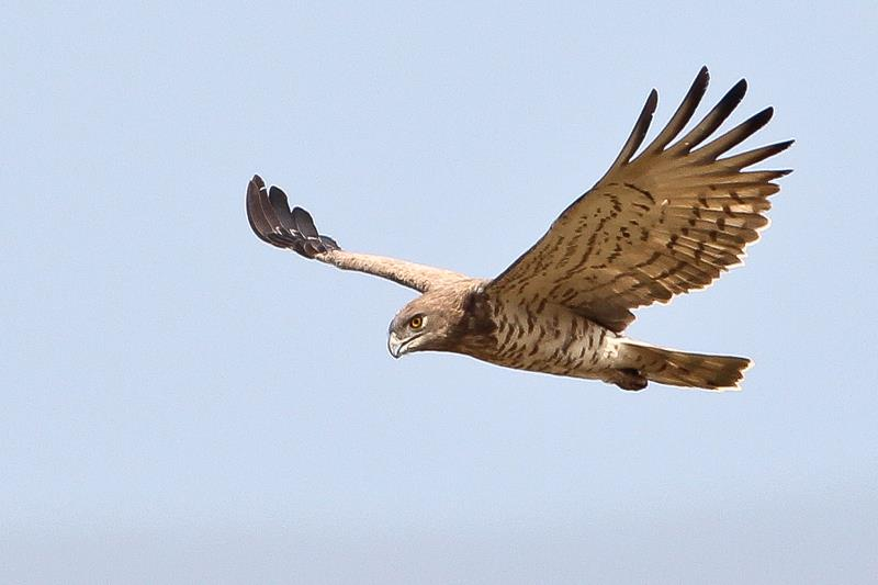 Short Toed Snake Eagle